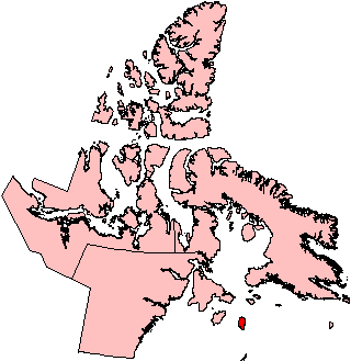 Nunavut Territory, highlighting Mansel Island Created and uploaded by Keith Edkins